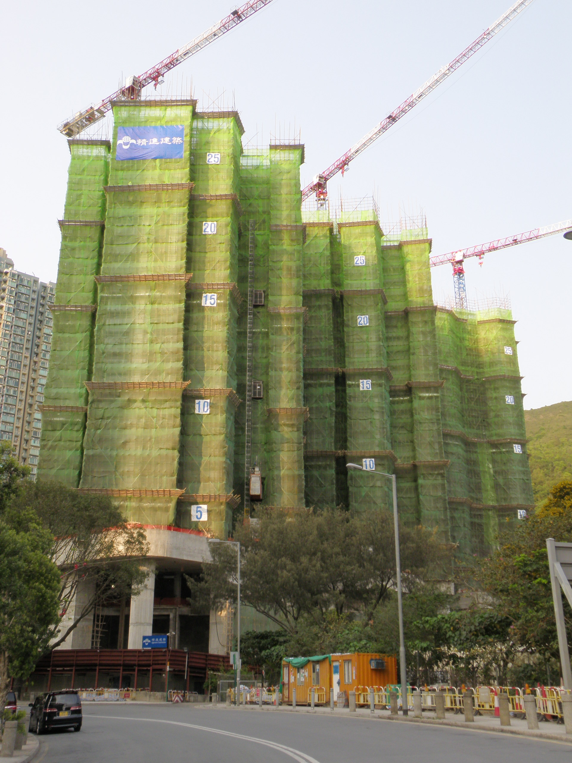 The Beaumount in Tseung Kwan O, Hong Kong.